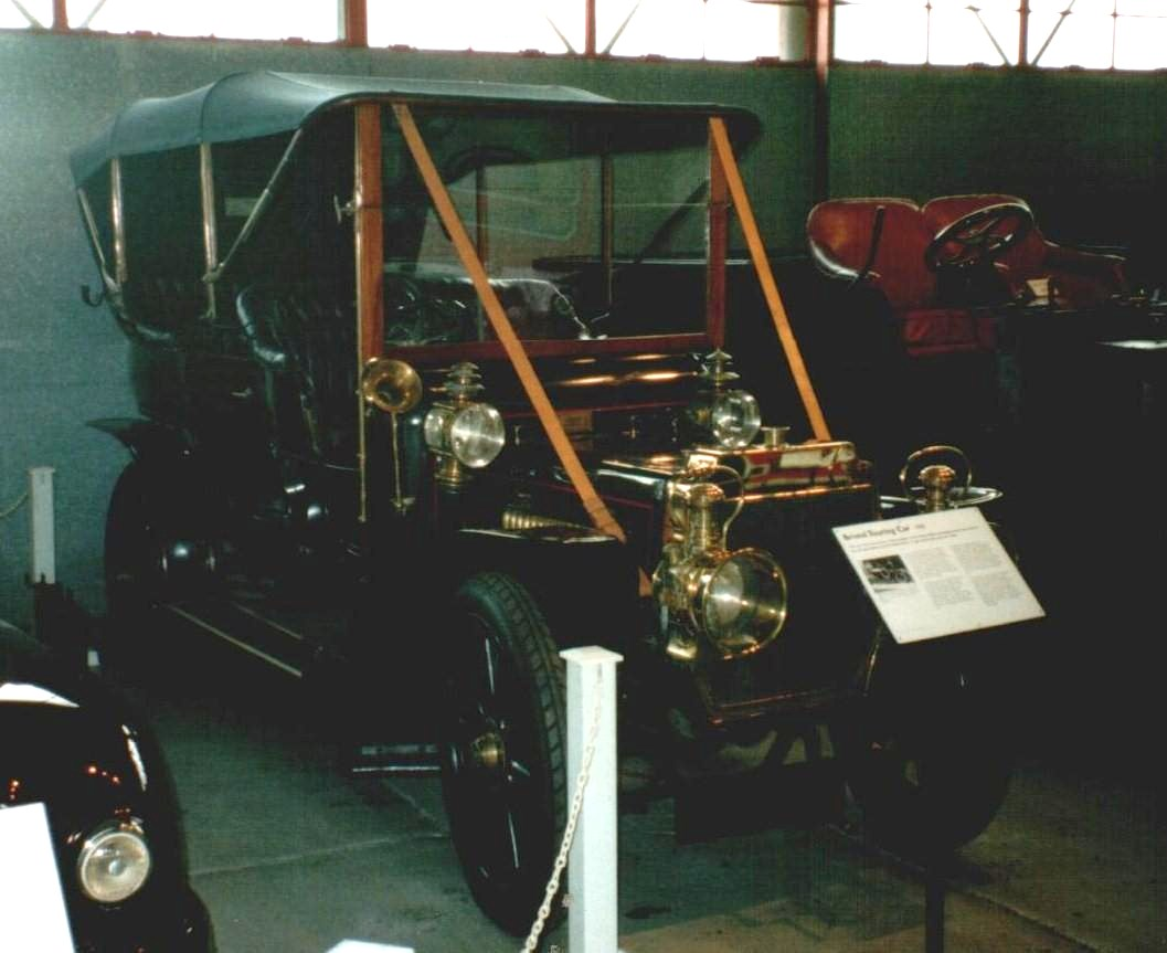 Bristol 1906